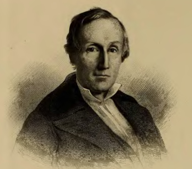 Engraved frontispiece of Samuel George Morton from Types of Mankind by Josiah Clark Nott and George Robbins Gliddon